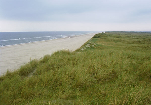 A view to the north of Skallingen, Denmark.